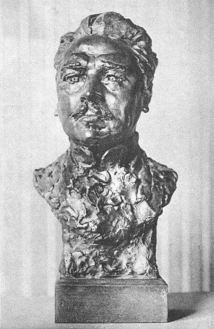 French playwright Henry Becque (1837-1899) by Auguste Rodin (1840-1917). Terracotta.